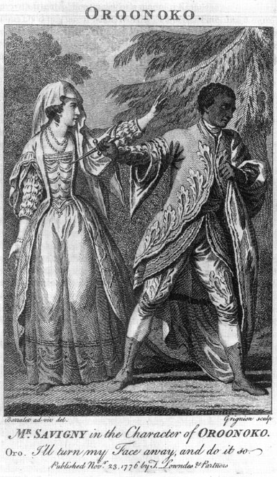 Handout of 1776 performance of Oroonoko